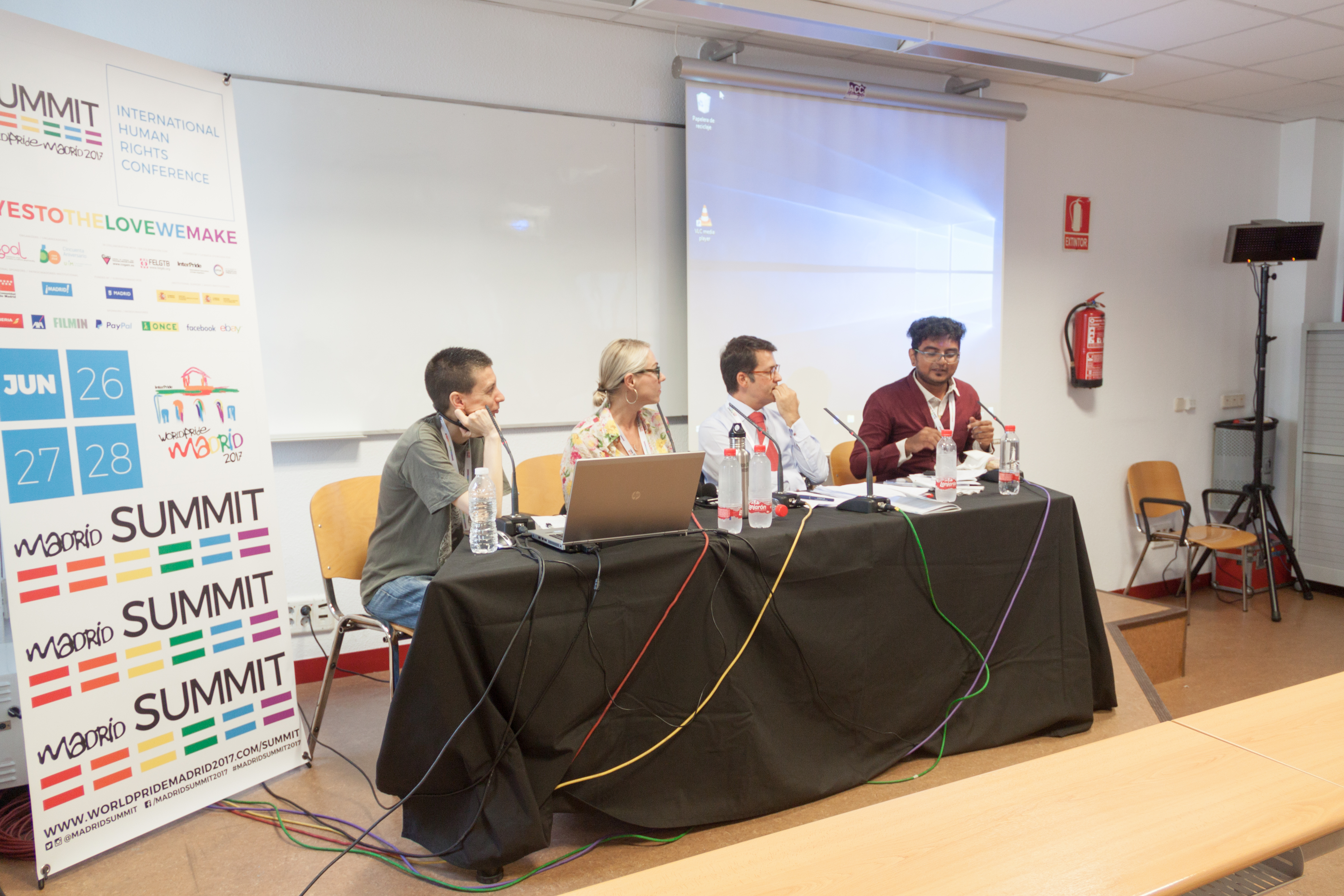 Katrina Karkazis: : Professor, Stanford University. Gopi Shankar Madurai: Activist, Writer and Founder of Srishti Madurai LGBTQIA+ Student Volunteer Movement. Carlos Duarte: Vice-President of the Portuguese Commission for Citizenship and Gender Equality.